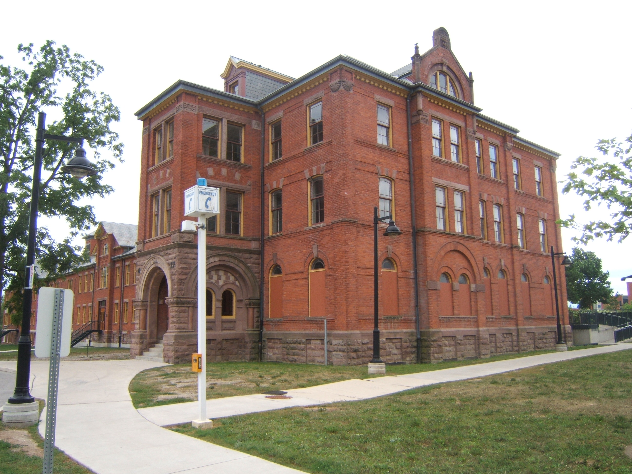 Side view of the building which used to be the Lakeshore Psychiatric Hospital, later the filming location of the movies Police Academy 1,3 and 4; now part of Lakeshore Campus of Humber College, Toronto, Ontario, Canada